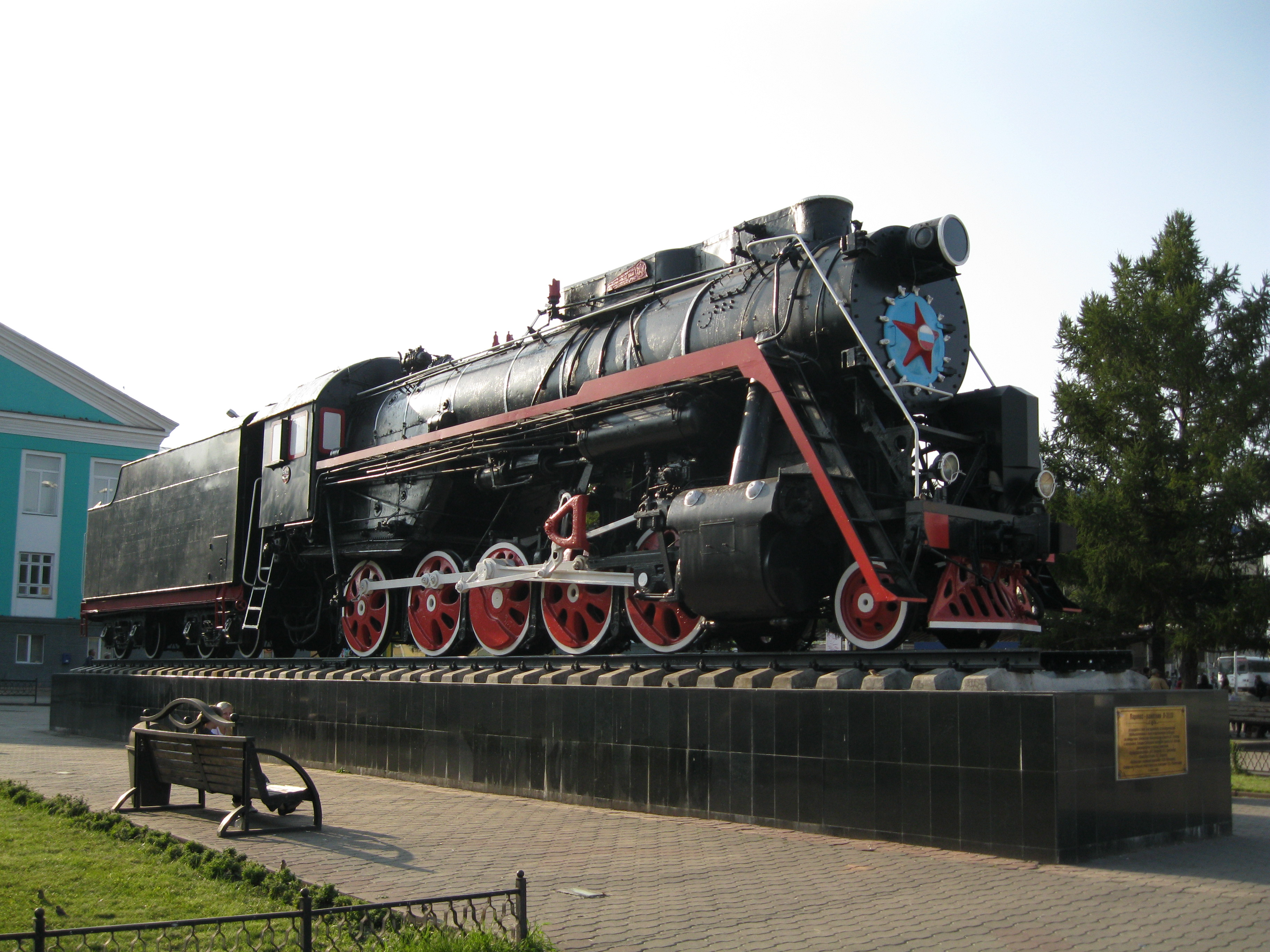 Steam locomotive near railway station in Kemerovo, Russia